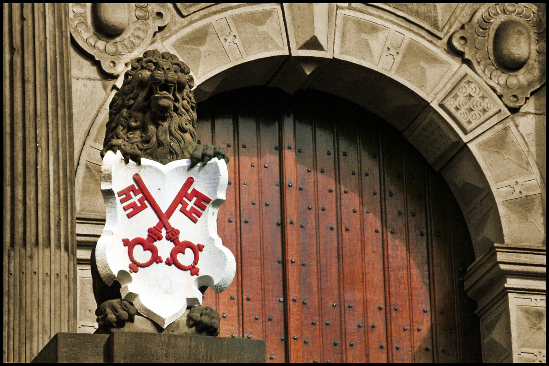 Leiden, Netherlands - City hall.